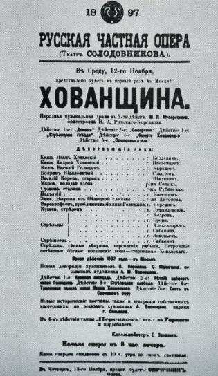 Affiche of the Russian Private Opera production of Khovanshchina (1897)